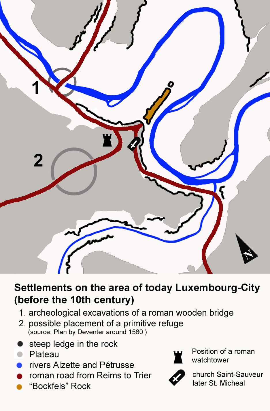 Early settlements in Luxembourg City.